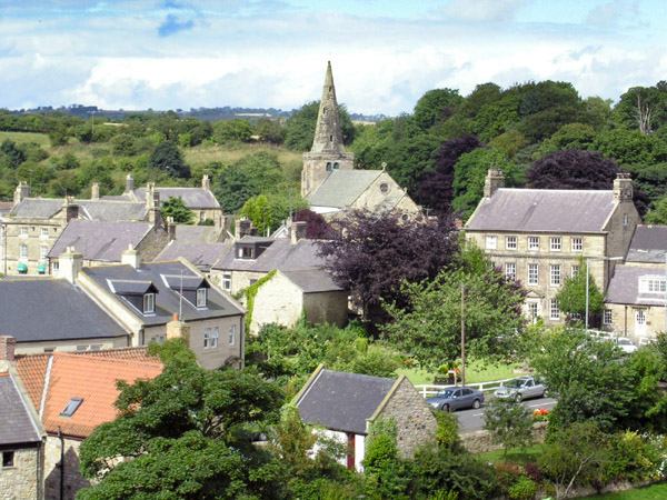 Warkworth Village and Church, taken Aug 2003 by James McQuillen